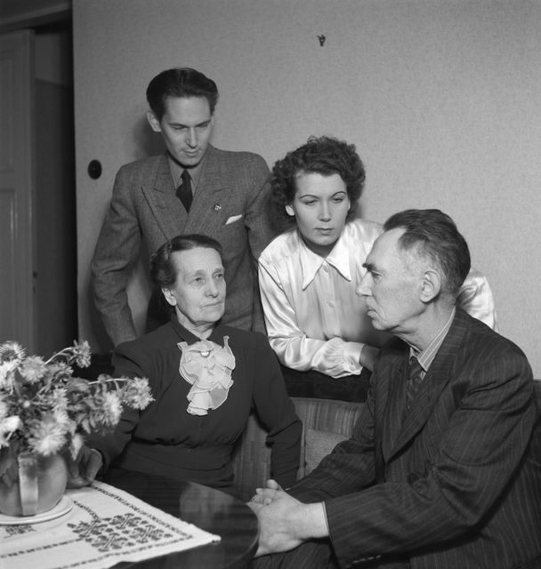 Photograph of the family of the Finnish vocalist and conductor Wäinö Rautawaara (1872–1950). To the left, his wife Wenny Rautawaara née von Essen (1877–1962); standing Pentti Rautawaara and Aulikki Rautawaara.